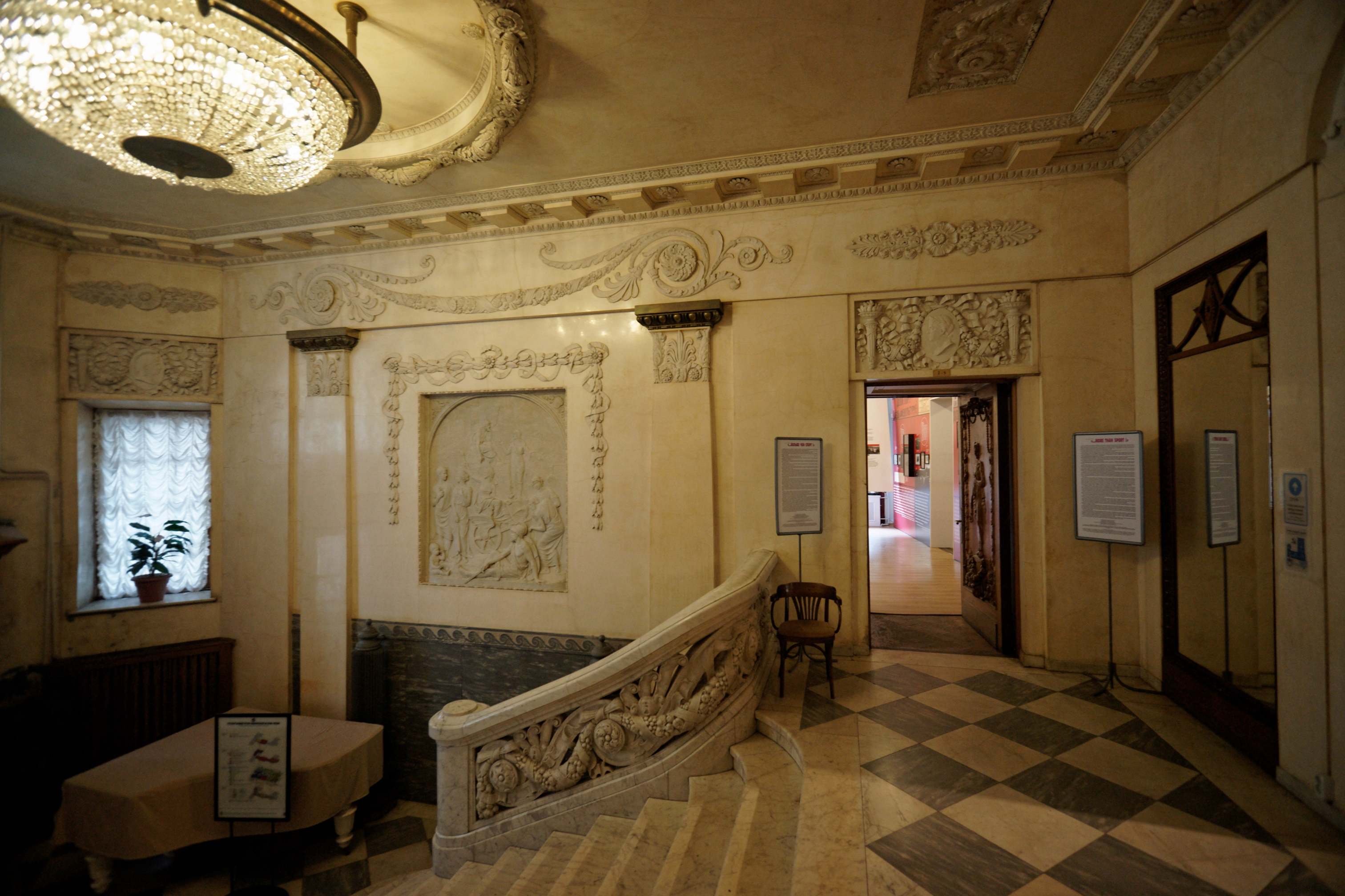 Санкт-Петербург / St Petersburg - Музей политической истории России / State Museum of Political History of Russia - Особня́к Кшеси́нской / Kshesinskaia Mansion 1906 by Alexander von Hohen (Алекса́ндр Ива́нович фон Го́ген) - Northern Art Nouveau